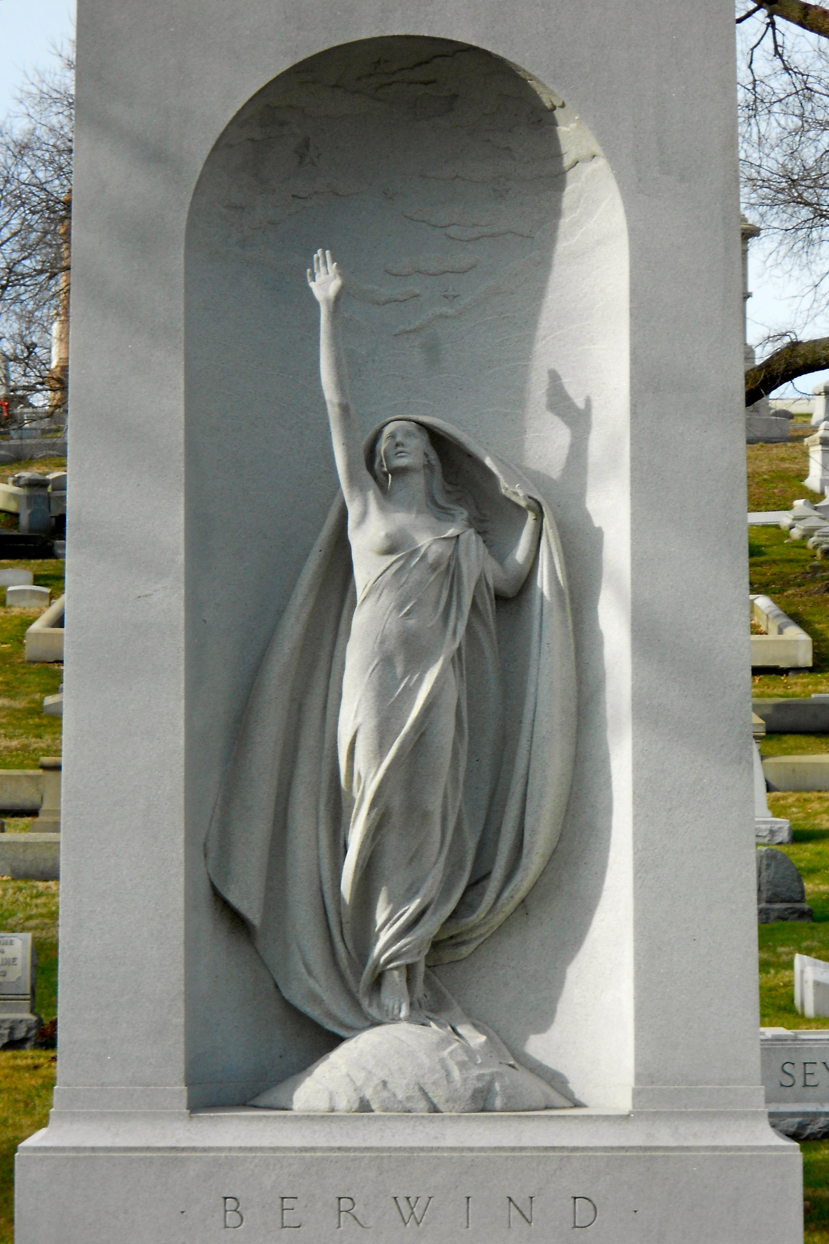 Berwind tomb in Laurel Hill Cemetery, Philadelphia. Sculpture "Aspiration" by Harriet Whitney Frishmuth, 1933. No visible copyright notice so public domain.